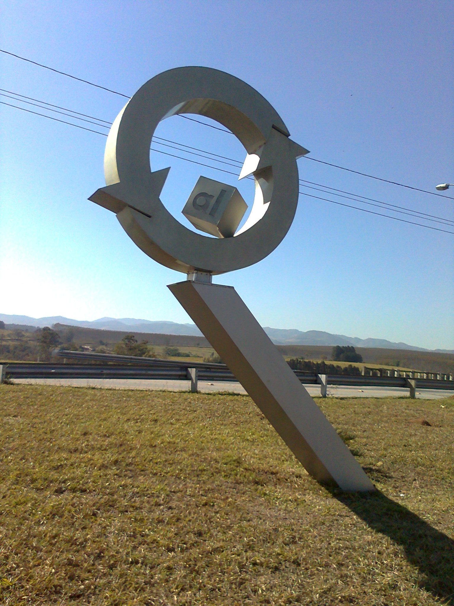 Symbol of Aluminum Recycling _ Pindamonhangaba city entrance